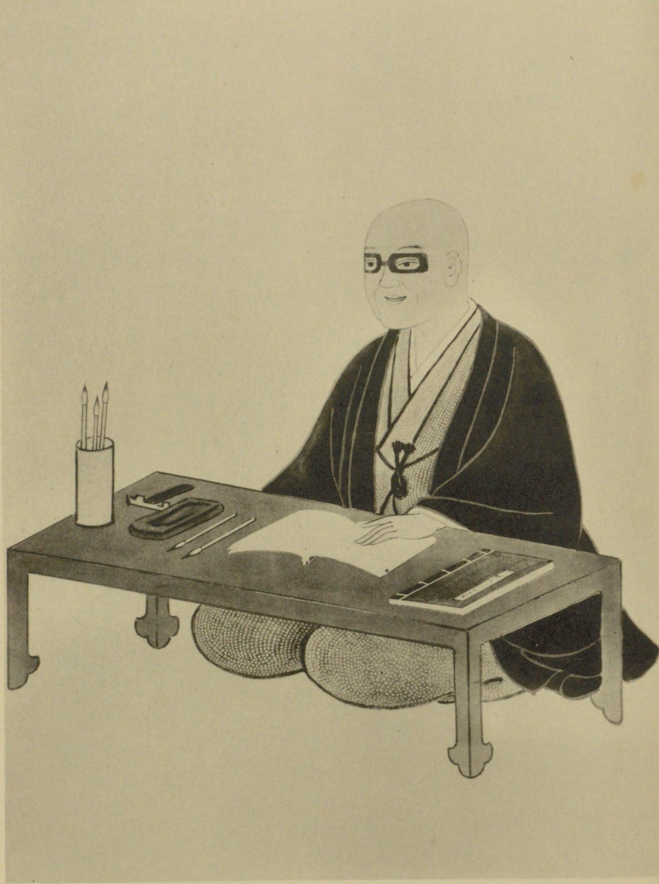 Portrait of Taki motokata